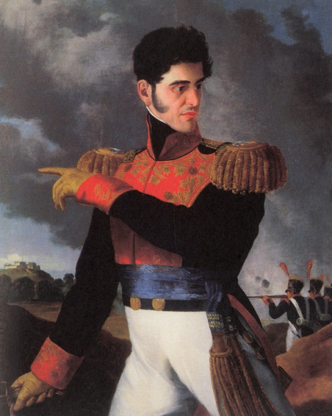 Antonio Lopez de Santa Anna (1794-1876)